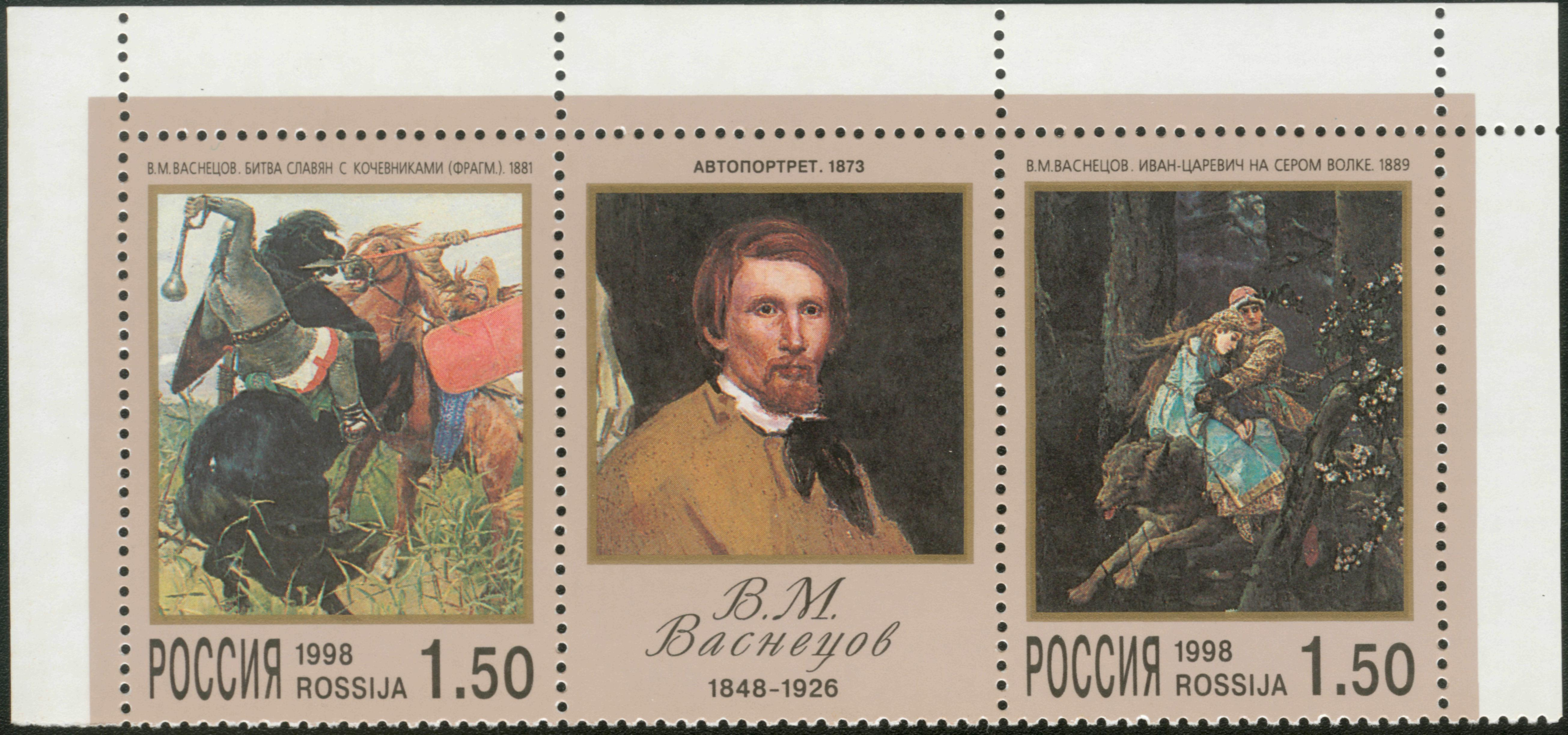 Stamps of Russia. Painters (continuation of series). «The 150th birth anniversary of V.M.Vasnetsov (1848-1926)», 1998